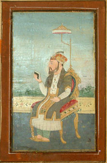 Indian, Moghul Emperor Rafi Uddar Jat 18th Century Painting Gouache on paper AC 1967.32 Gift of Alban G. Widgery